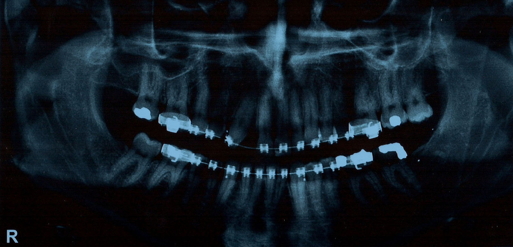 An orthopantomogram with braces